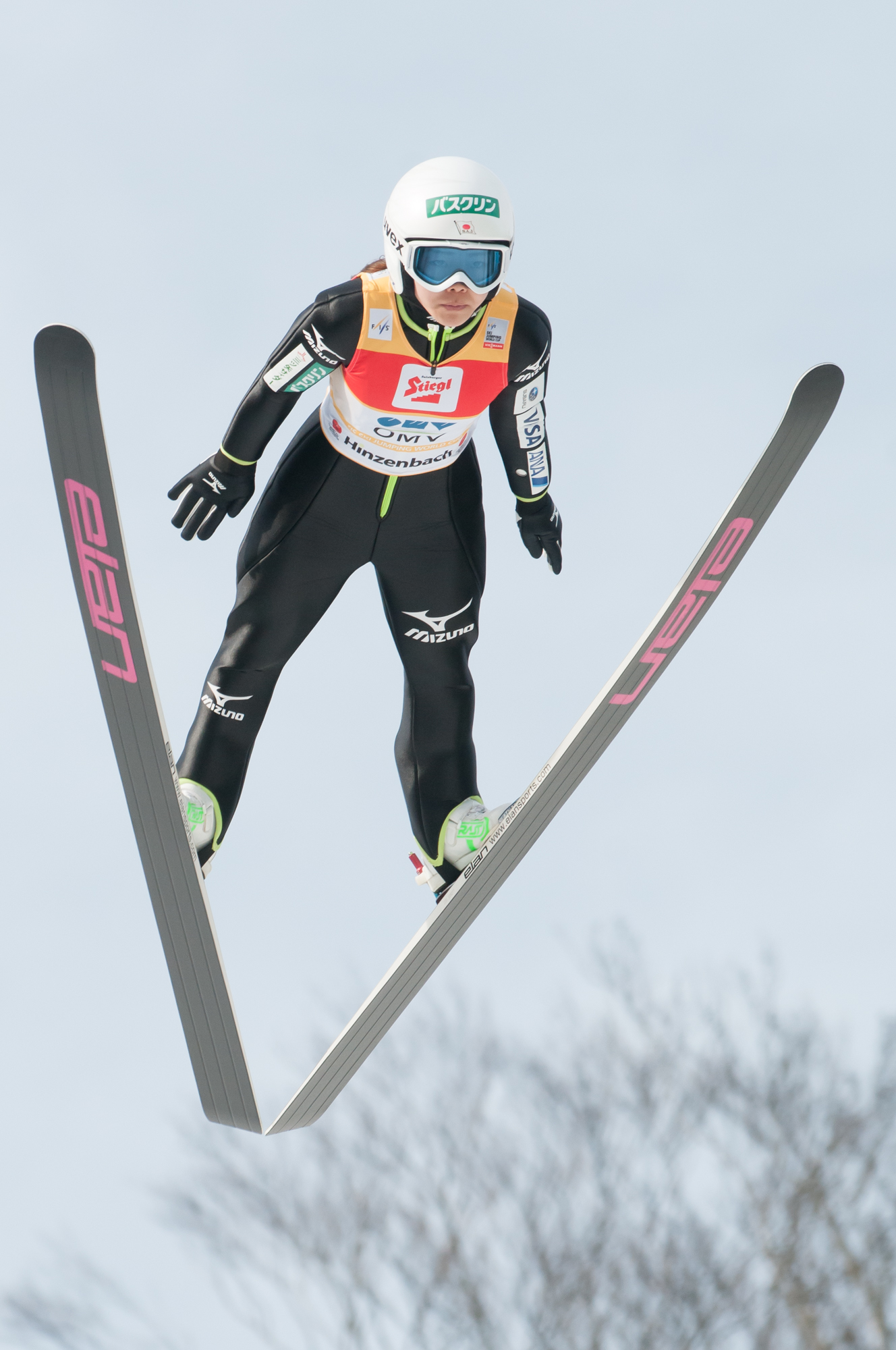 FIS Ski Jumping World Cup Ladies Hinzenbach 2016-02-07